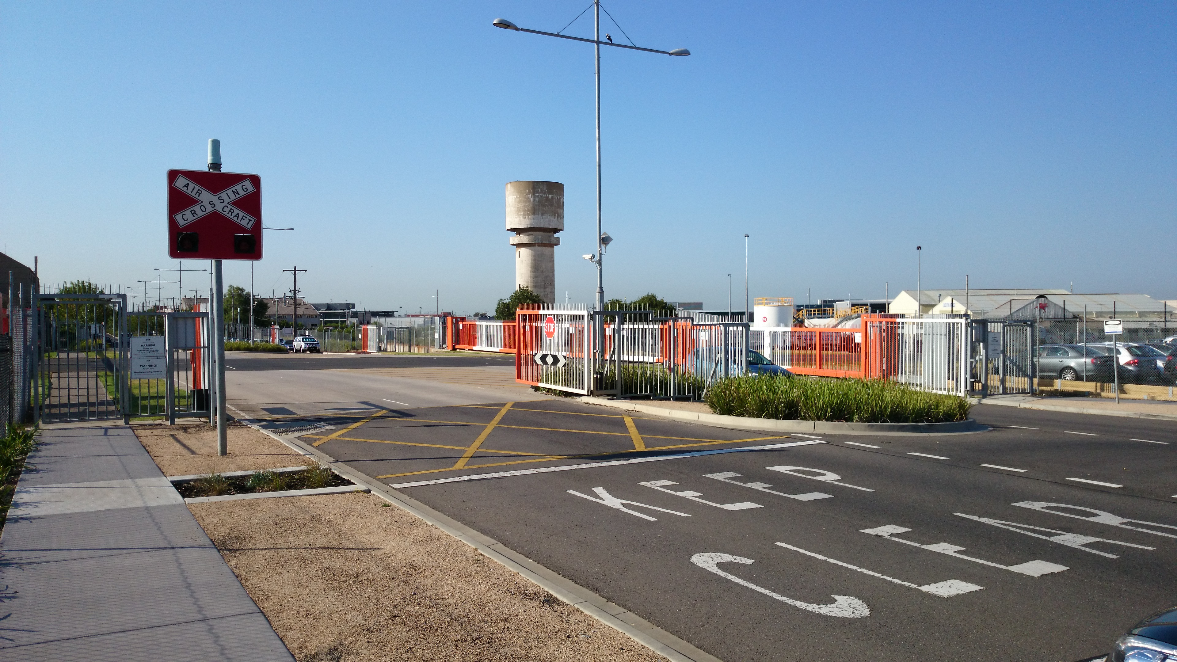 Aircraft crossing on Wirraway Road at Essendon Airport.